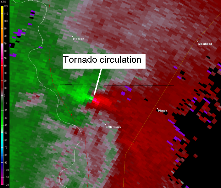 Velocity scan of the Little Sioux tornado. The tornado is shown where the inbound and outbound winds meet together creating shear. The scan was taking at around 6:33 PM EDT, the approximate time where the tornado hits the Little Sioux Boy Scout Ranch killing 4. Courtesy of NWS Omaha